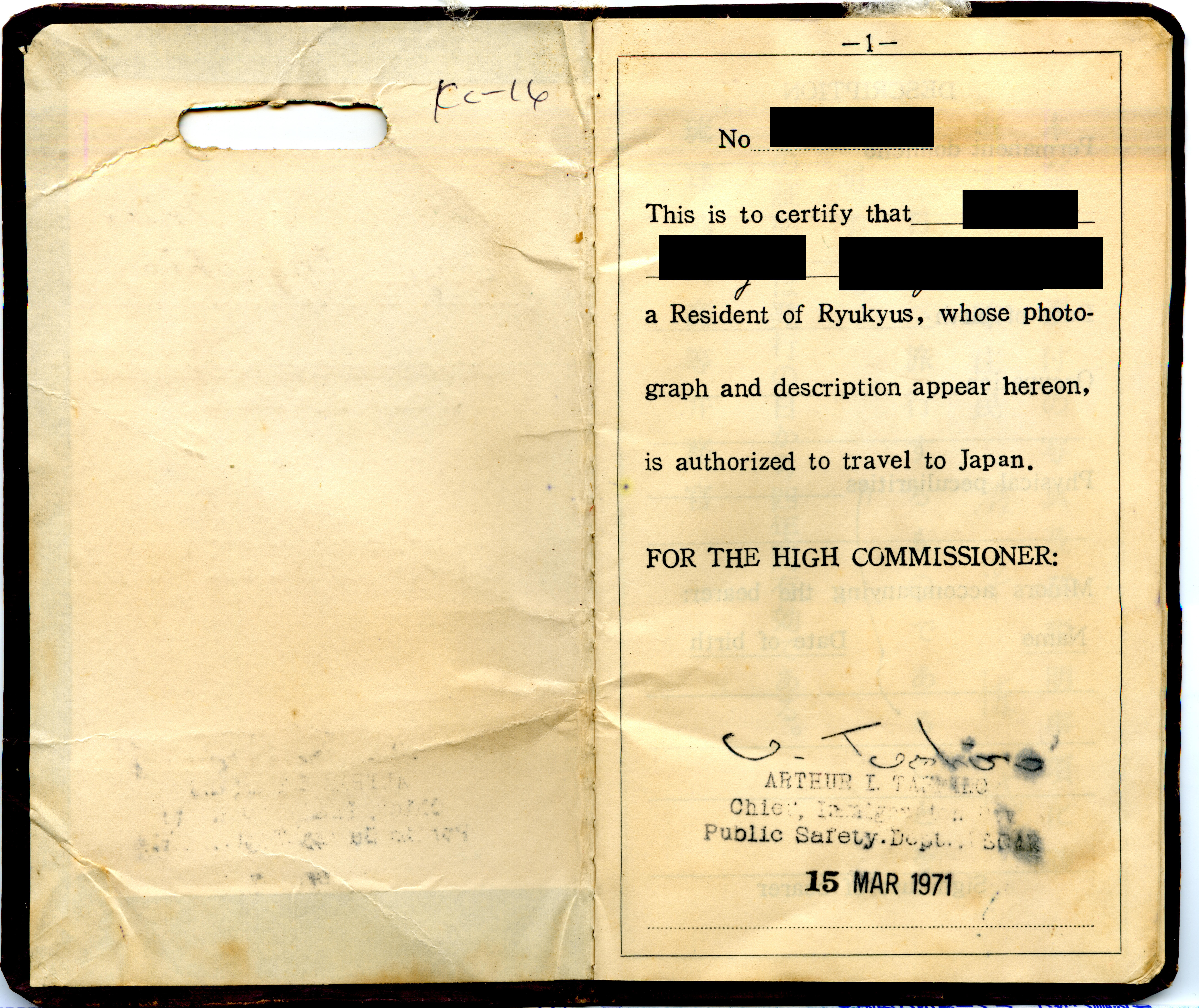 United States Civil Administration of the Ryukyu Islands. Japan Travel Document.Page1(Ryukyu Government Passport) United States Civil Administration of the Ryukyu Islands issue